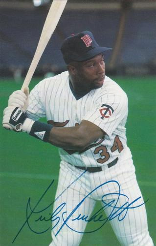 Color postcard from the 1987 Minnesota Twins postcard set of professional baseball player Kirby Puckett